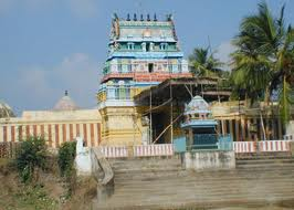 temple view பெருமாள் -- அண்ணன் பெருமாள் (எ) கண்ணன் நாராயணன் (ஸ்ரீனிவாச பெருமாள்) தாயார் -- அலர்மேல் மங்கை விமானம் -- சுவேத விமானம் புஷ்கரணி -- சுவேத புஷ்கரணி ப்ரிதிக்க்ஷேம் -- சுவேத மகாராஜா இது ஸ்ரீவைஷ்ணவர்களின் 108 திவ்ய தேசங்களில், சோழ நாட்டிலுள்ள ஒரு திவ்ய தேசம், சீர்காழியிலிருந்து காரைக்கால் செல்லும் வழியில், சீர்காழியிலிருந்து சுமார் 7 கிலோமீட்டர் தொலைவில் அமைத்துள்ளது . திருநாங்கூர் 11 திவ்ய தேசங்களில் முதன்மையானது. குமுதவல்லி நாச்சியார் அவதார ஸ்தலம் . திருமங்கை ஆழ்வார் இங்கே 10 பாசுரங்கள் மங்களாசனம் செய்துள்ளார் . திருமலையில் வீற்றிருக்கும் திருவேங்கடமுடையானின் அண்ணனாக இவரைக் கருதுவதால் இந்தப் *பெருமாளுக்கு அண்ணன் பெருமாள் என்ற திருநாமம் , திருமங்கை ஆழ்வாரும் "அண்ணா அடியேன் இடரை களையாயே" என்று பாடி உள்ளார்.